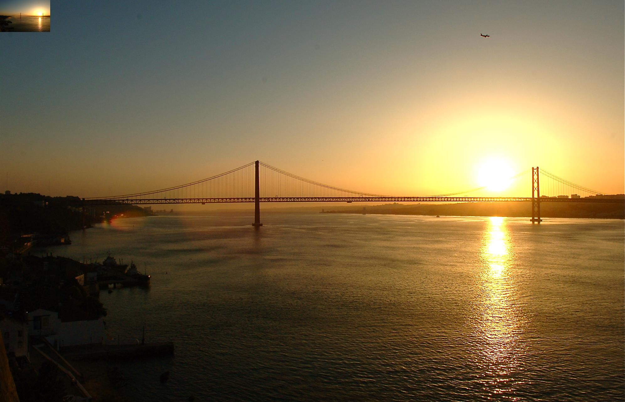 25 de abril Tagus bridge